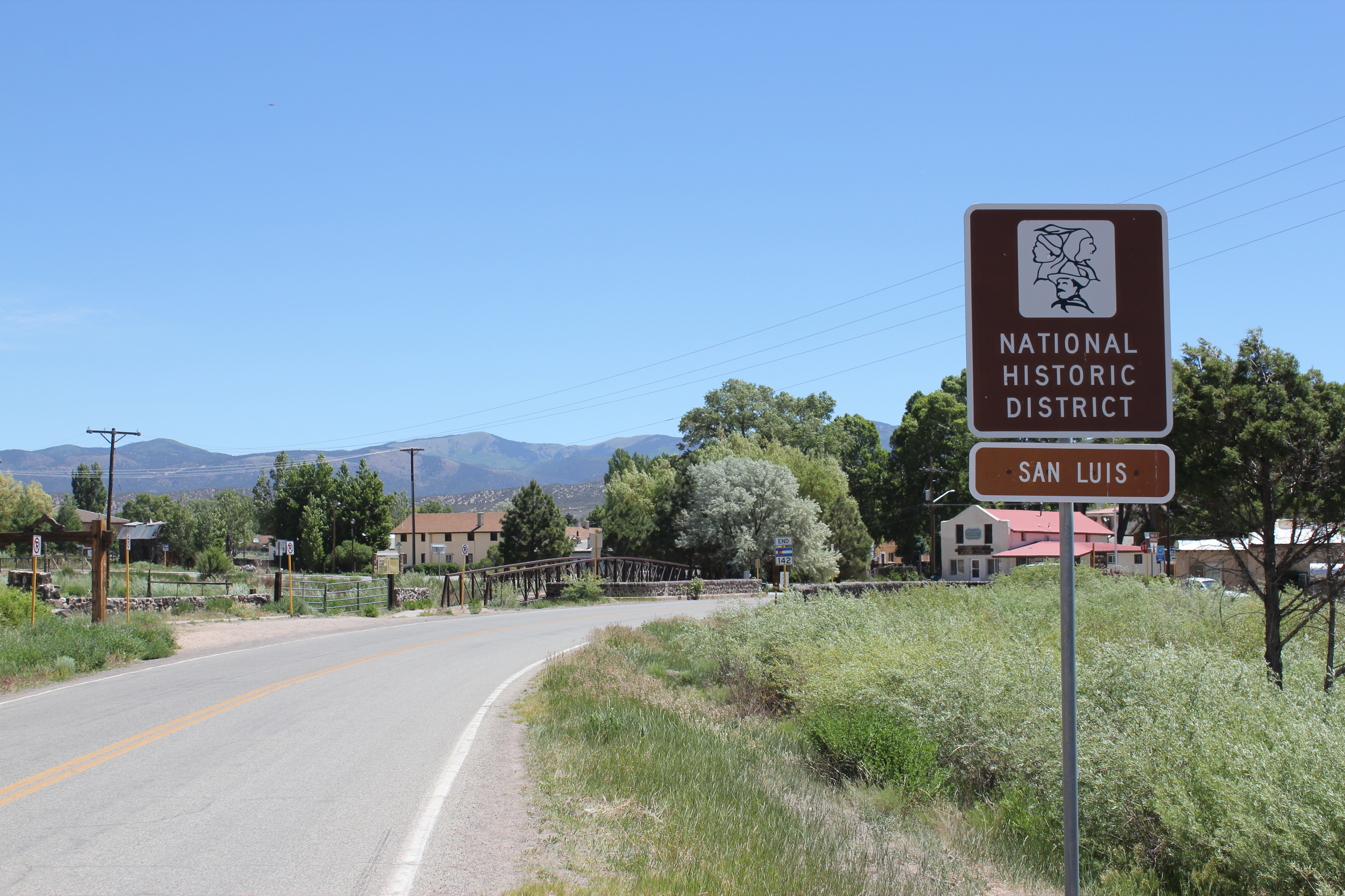 The Plaza de San Luis de la Culebra Historic District, which includes the town of San Luis, Costilla County, Colorado.